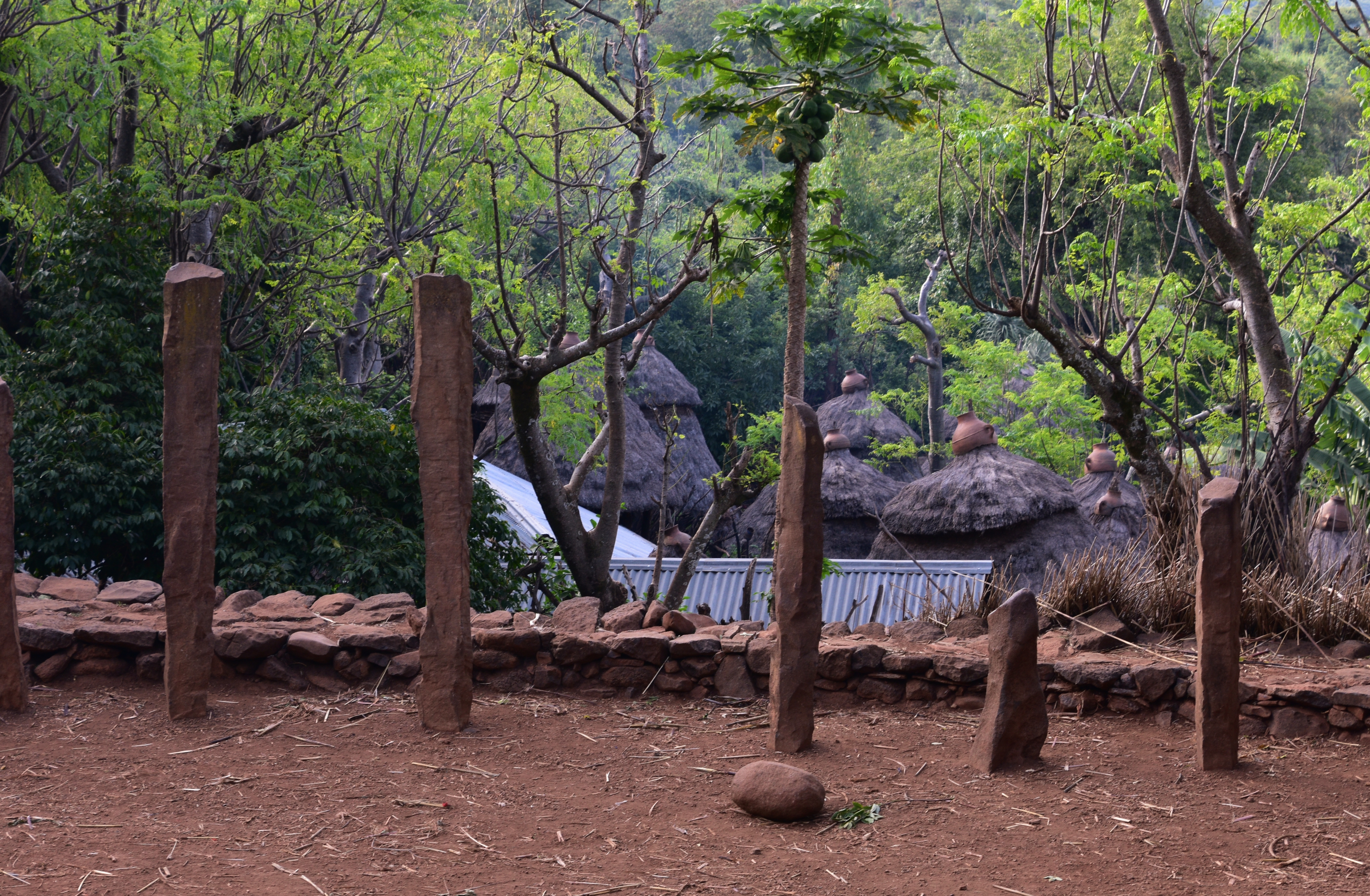 Konso village of Mecheke (28)